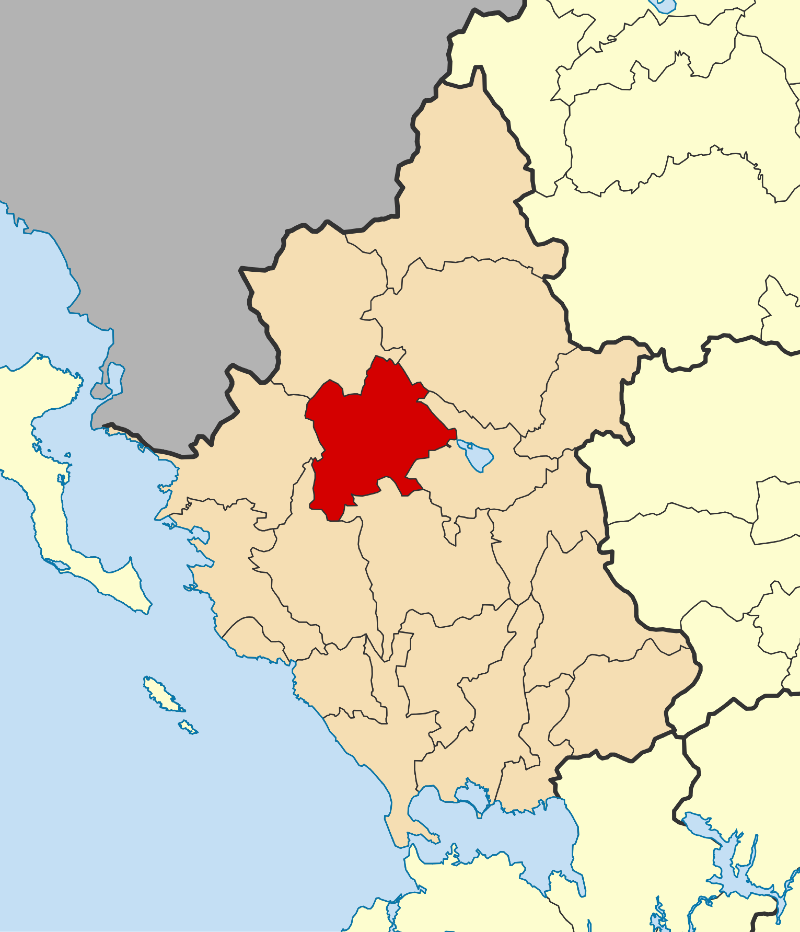 Locator map for Zitsa municipality in Greek region Epirus (2011)